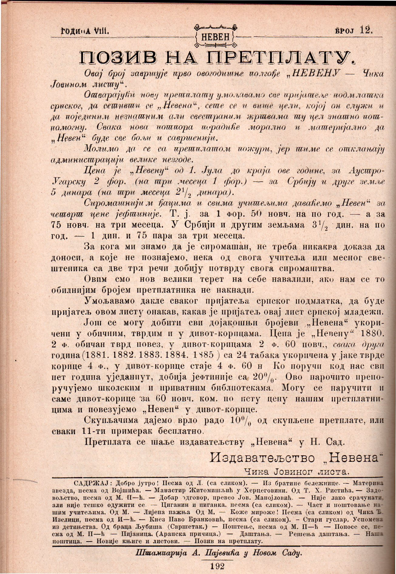 Neven, childrens magazine in Serbia, number 12, 1887